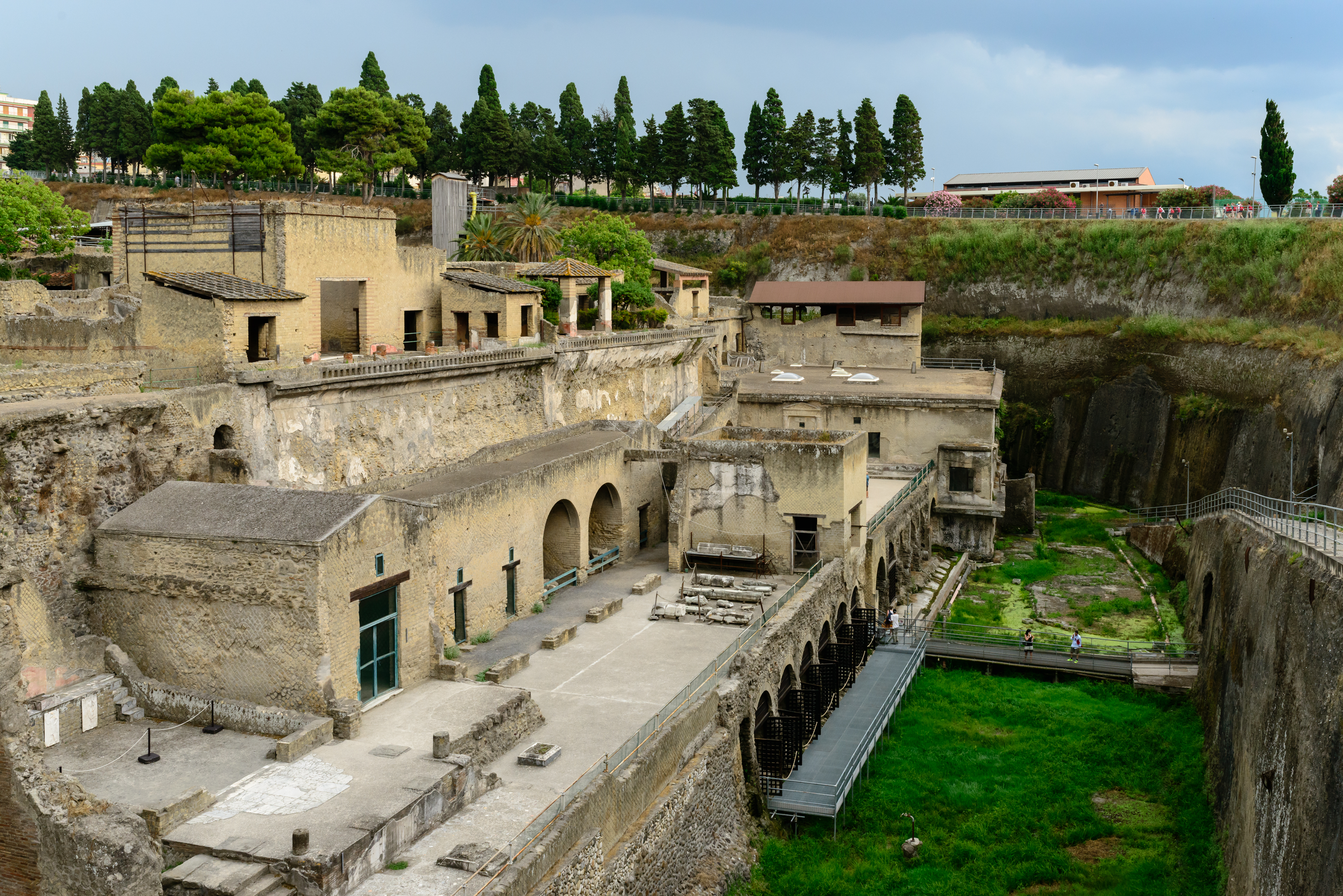 Ancient Roman Herculaneum, Campania, Italy.